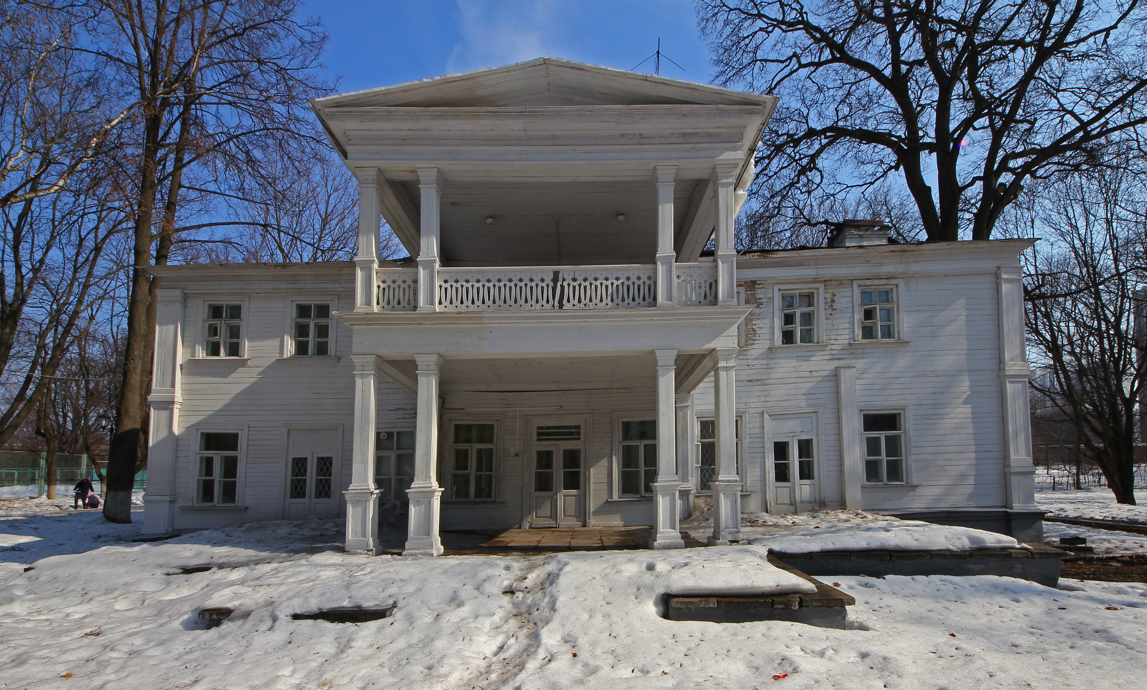 The former Bratzevo Estate in Tushino, Moscow.